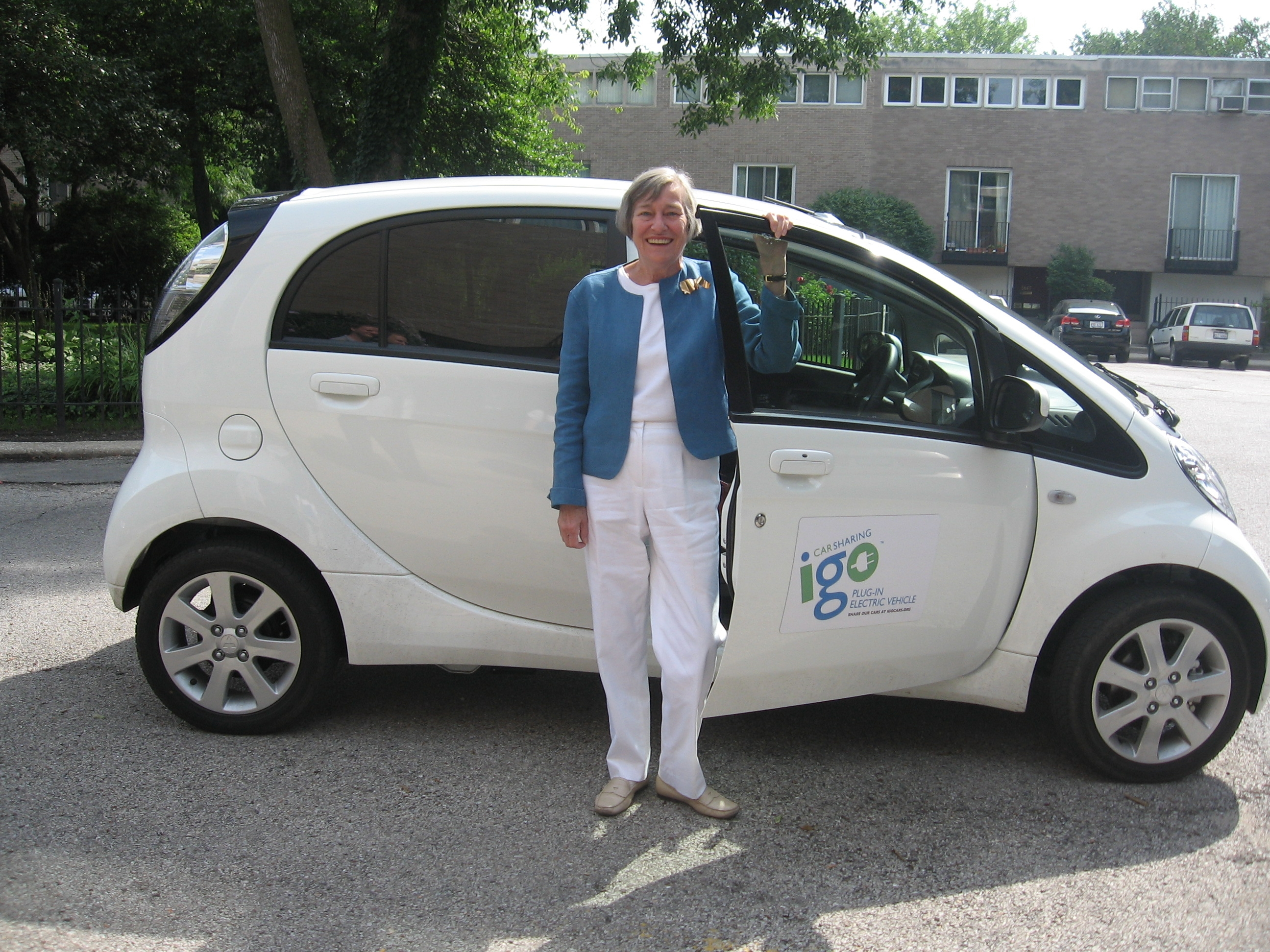 Illinois State Representative Barbara Flynn Currie in 2010. Photo courtesy of Center for Neighborhood Technology, via Flickr. This file has an extracted image: File:Barbara Flynn Currie 2010 CROPPED.jpg.